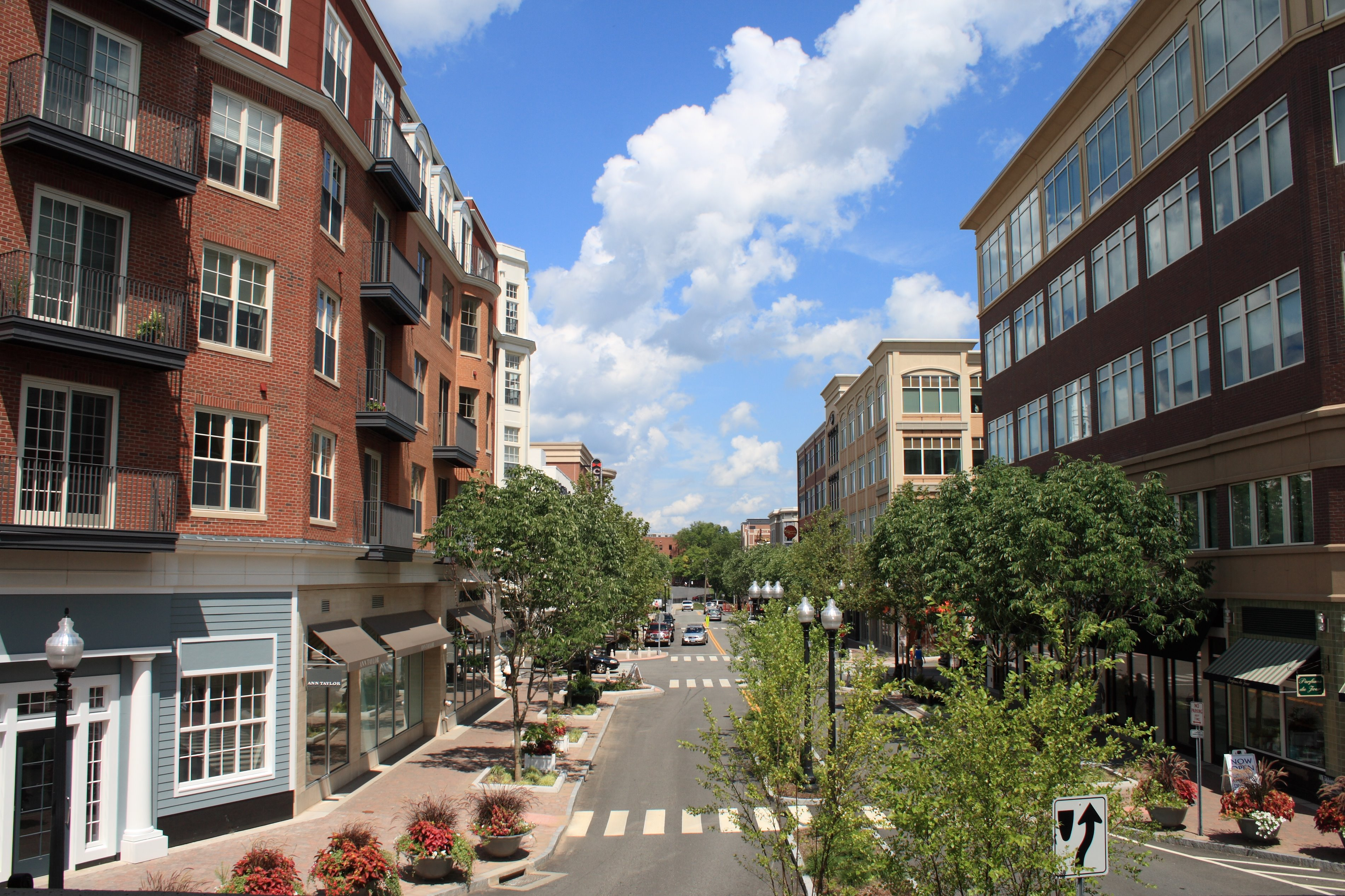 Blue Back Square shopping district in West Hartford, Connecticut, from the second level of a parking garage